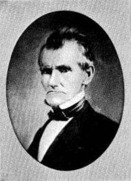 Origen S. Seymour, US Representative from Connecticut